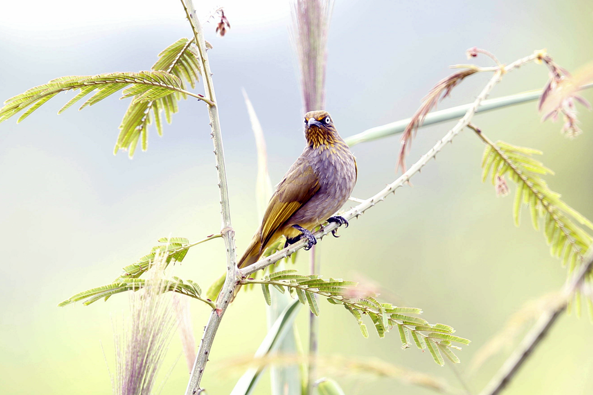 Davison's Bulbul (Pycnonotus finlaysoni davisoni)